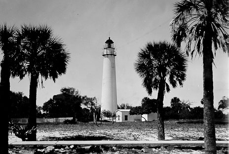 Egmont Key Light. Downloaded from U.S. Coast Guard Historic Light Station Information & Photography - Florida; "no photo number/caption/date; photographer unknown."